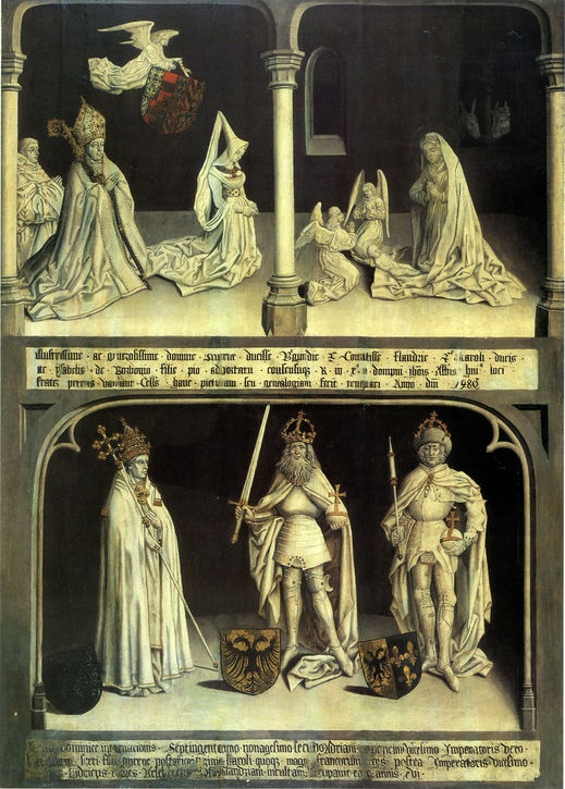 Part of a series of 17 paintings of counts of Flanders and abbots of Ten Duinen